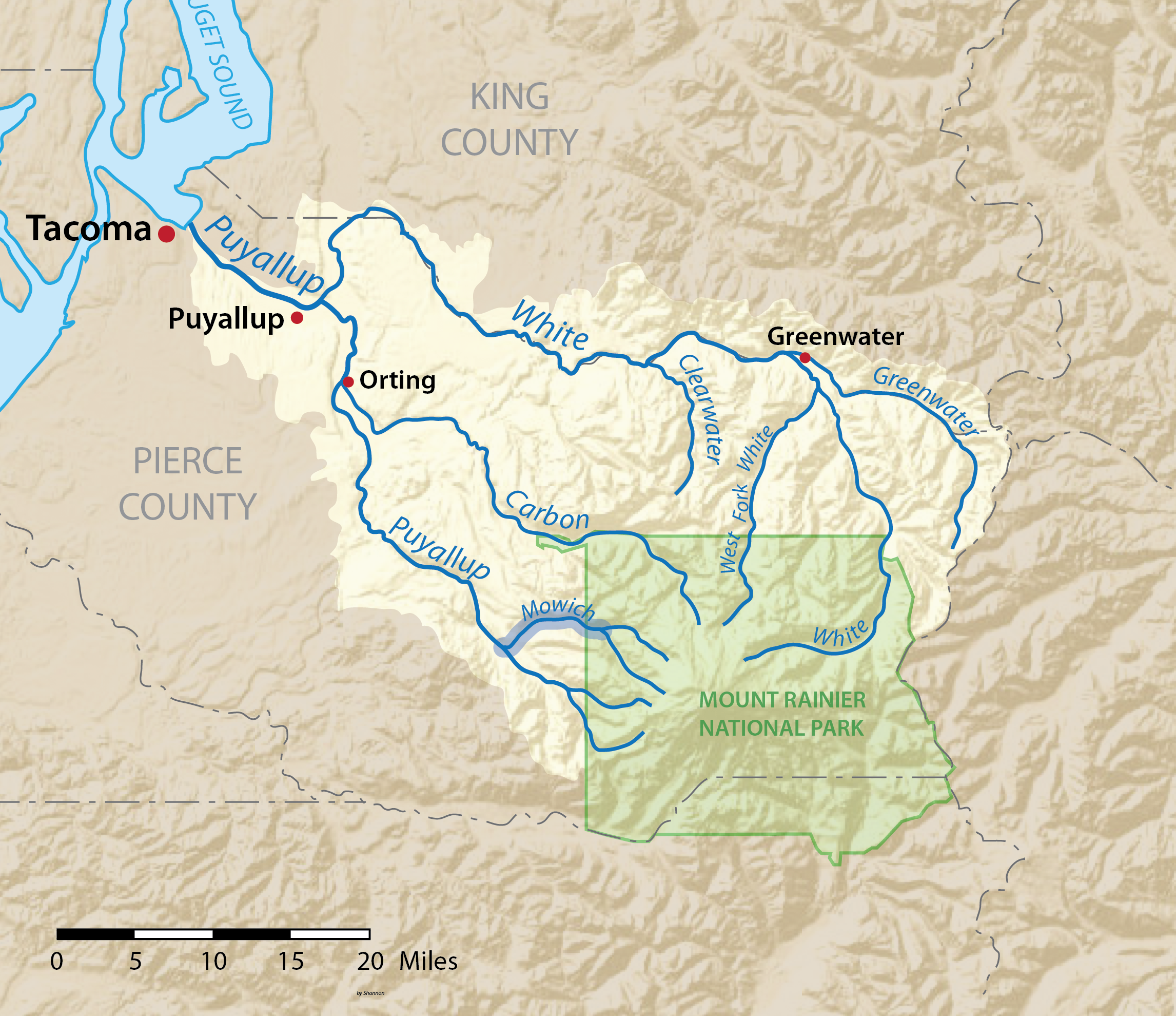 Map of the Puyallup River watershed in Washington, USA with the Mowich River highlighted. Made using USGS National Map data.